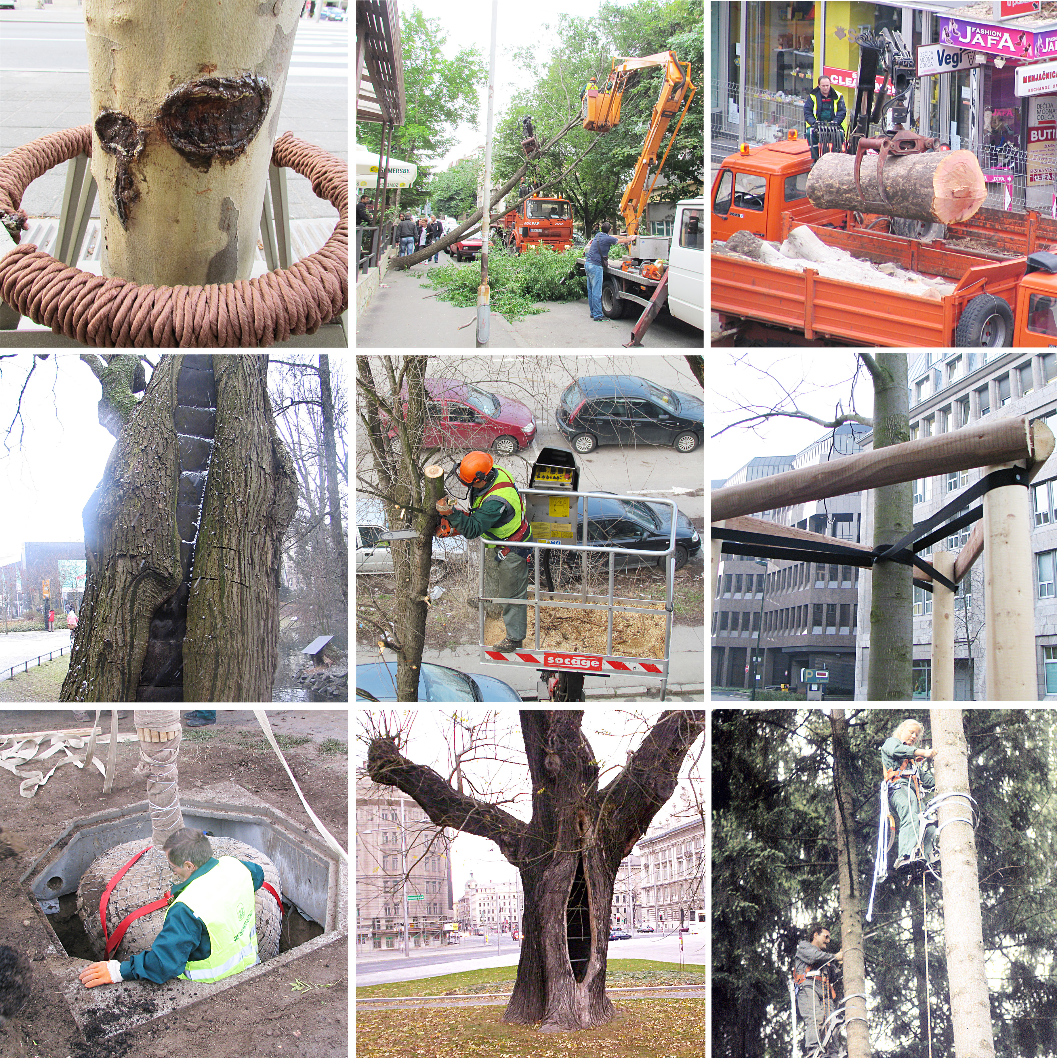 Arboricultural works (photo: Mihailo Grbic)